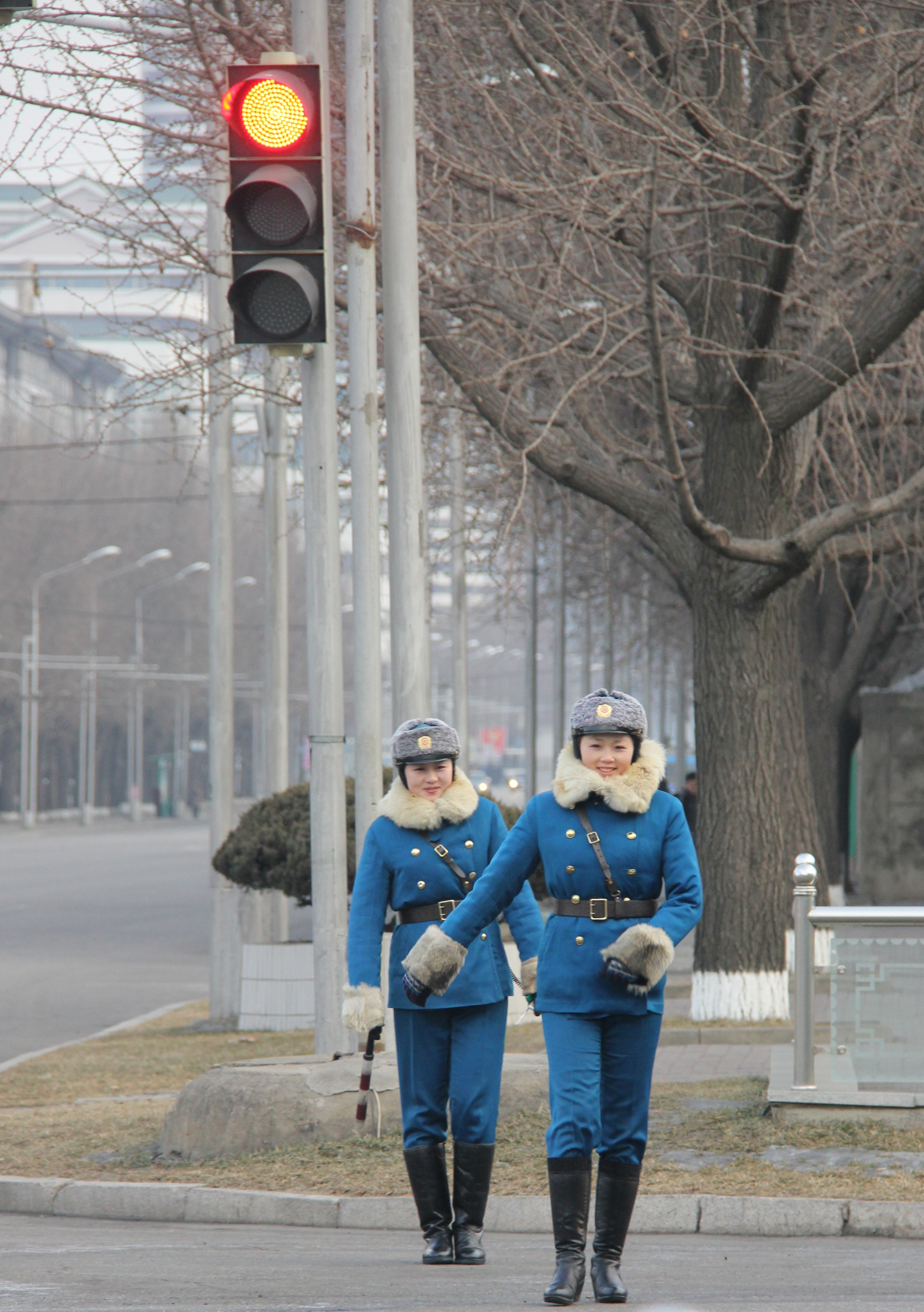 Female traffic police officers in Pyongyang